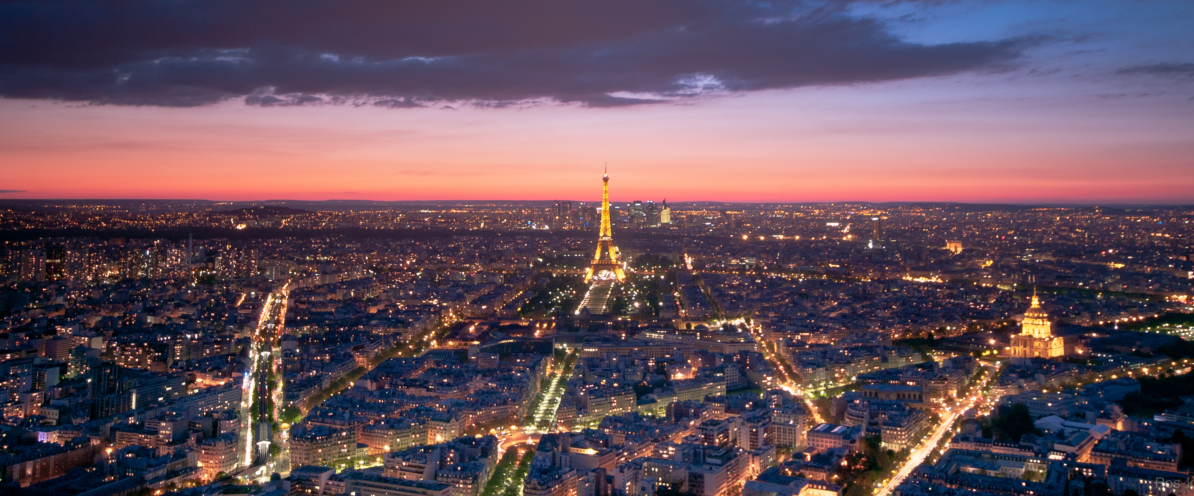 Eiffel Tower from the Tour Montparnasse.